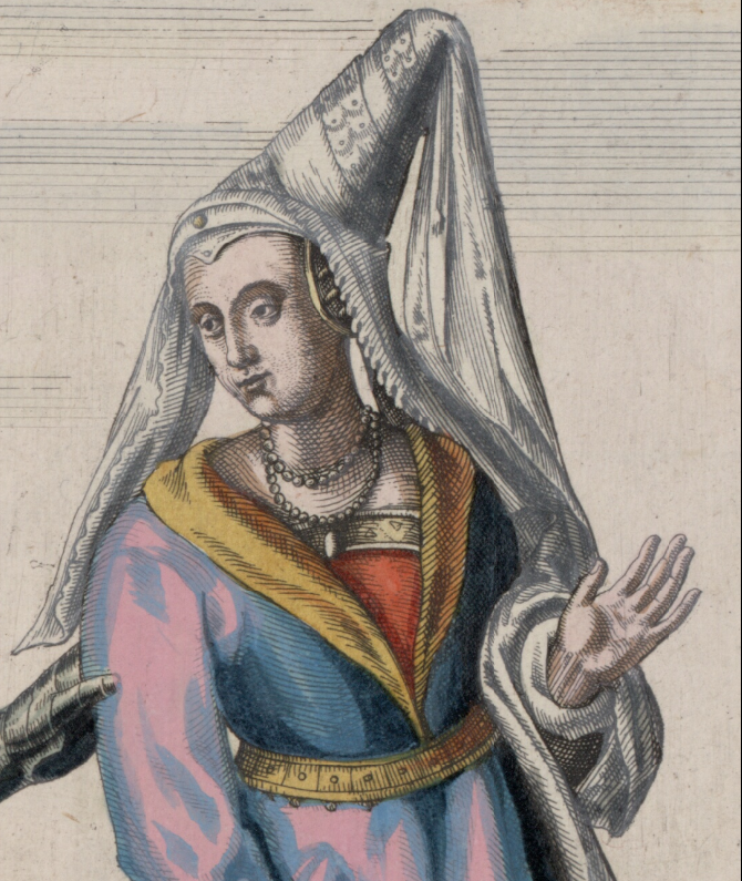 Detail of Judith of Flanders in the Flandria illustrata provided by Provided by Ghent University Library